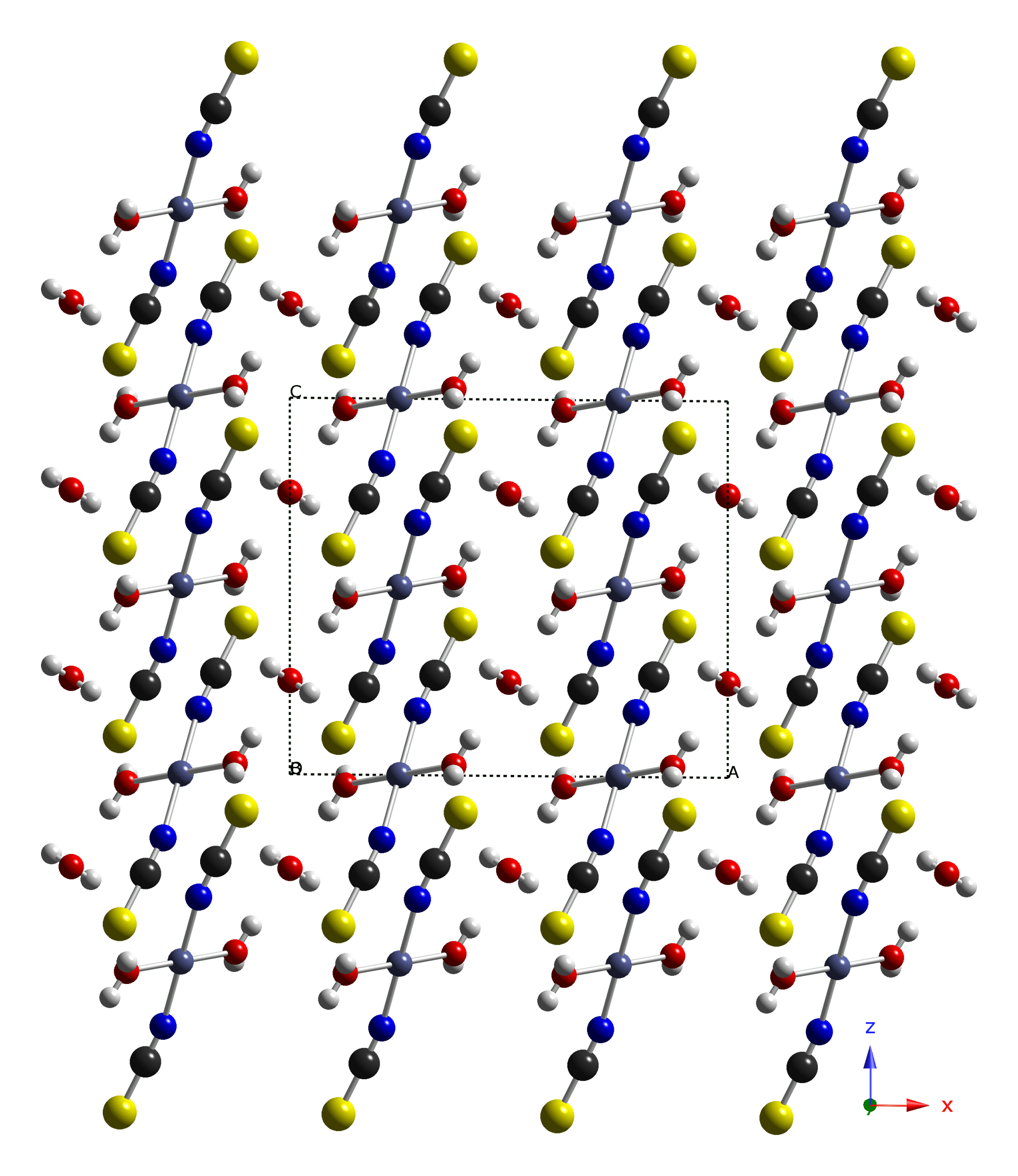 Ball-and-stick diagram of part of the crystal structure of cobalt(II) thiocyanate trihydrate, Co(NCS)2·3H2O, better described as [trans-(H2O)2Co(NCS)2]·H2O. Colour code: Cobalt, Co: grey-blue Nitrogen, N: blue Carbon, C: black Sulfur, S: yellow Oxygen, O: red Hydrogen, H: white Crystal structure from Acta Cryst. (1976) B32, 1526-1529. Image generated in CrystalMaker 8.3.